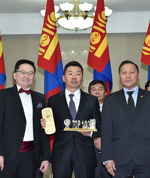 Монгол: Unitel becomes one of the Top 100 companies operating in Mongolia.